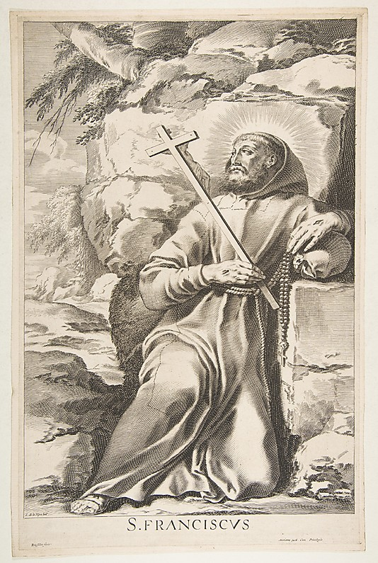 St. Francis by Gilles Rousselet, After Laurent de La Hyre (French, Paris 1606–1656 Paris) Engraving, sheet: 14 7/8 x 9 1/2 in. (37.8 x 24.2 cm) - The Metropolitan Museum of Art, New York